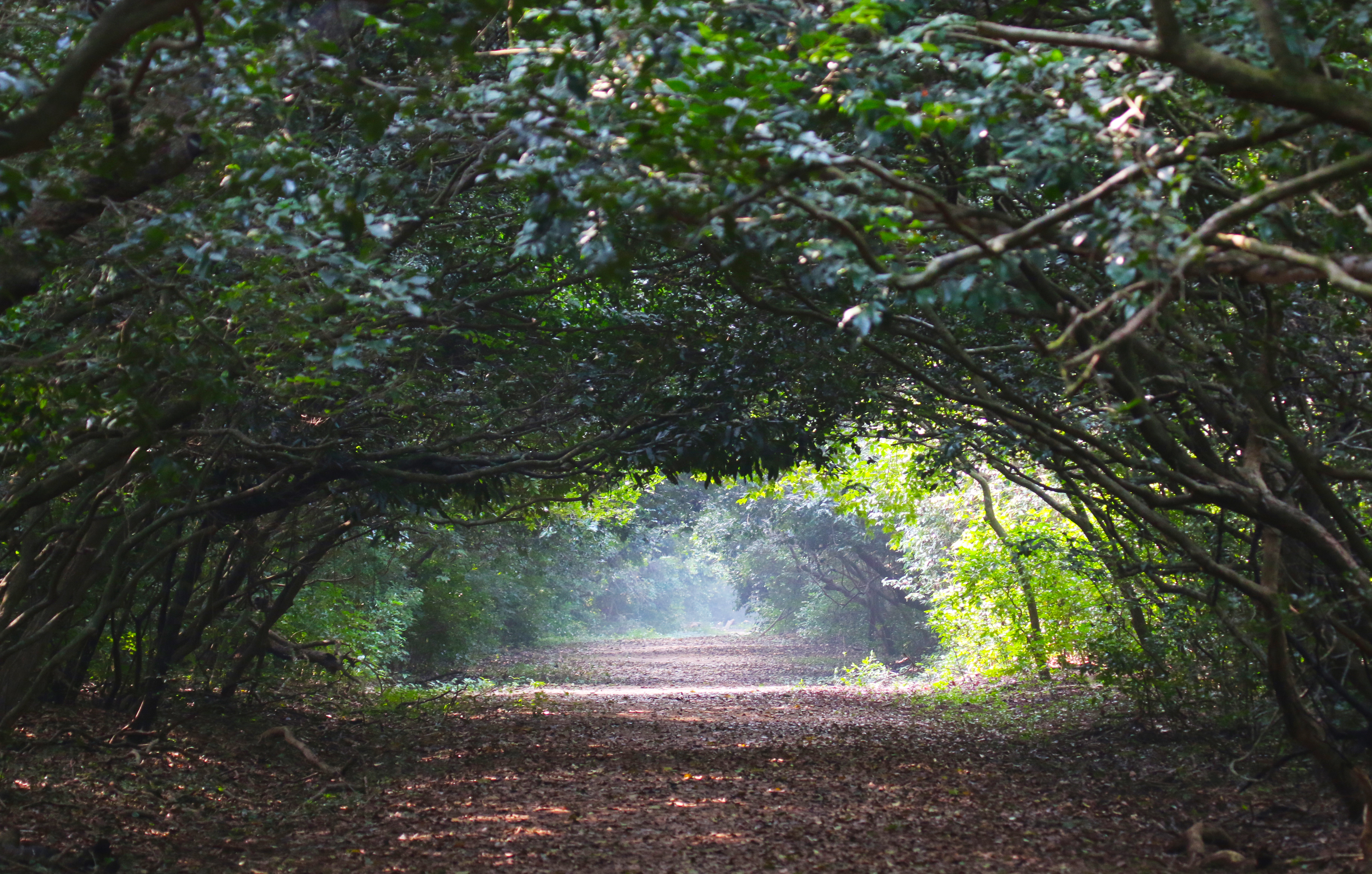 This forest is one of the best mangroves in the world, situated in Odisha state, India.